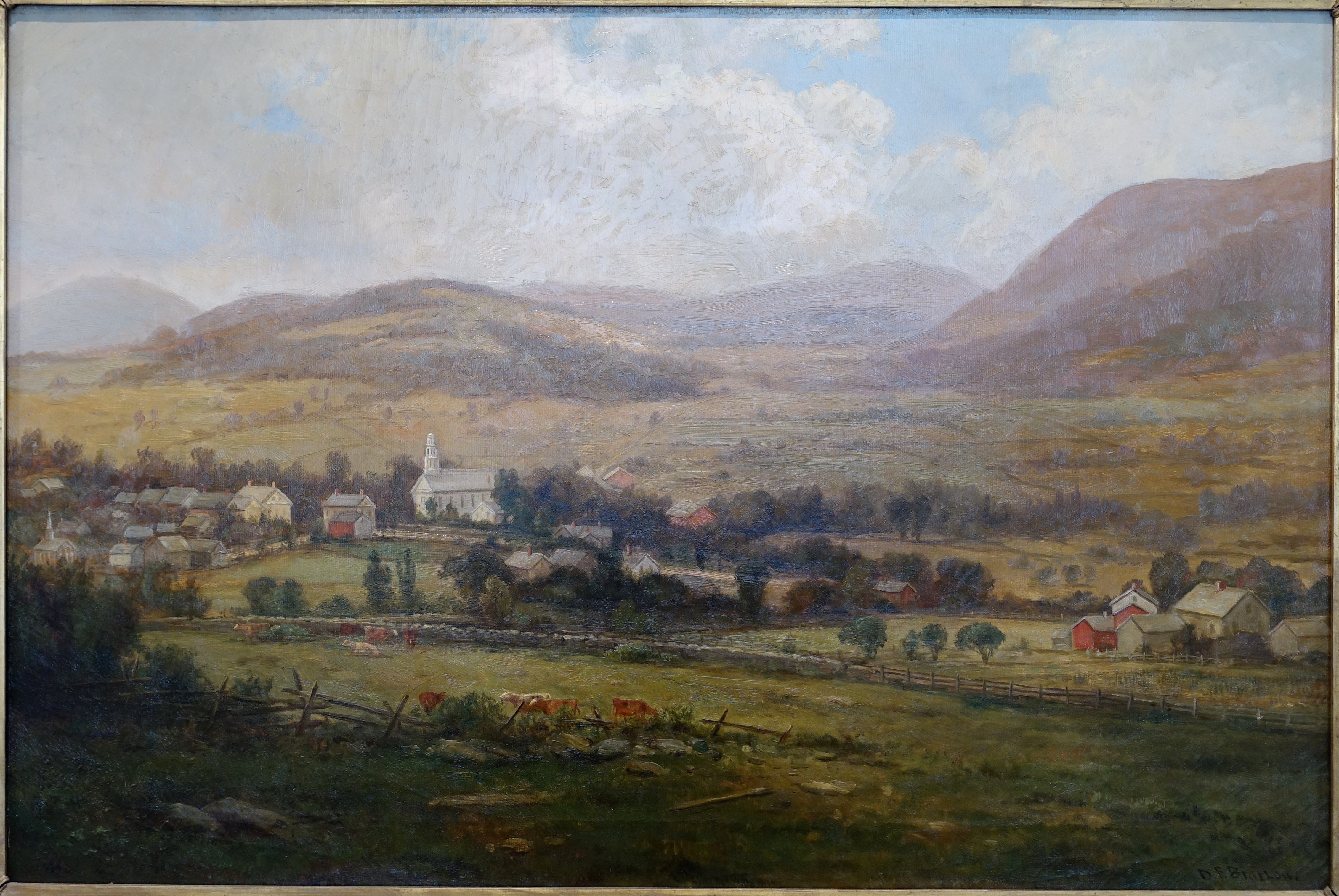 Painting in the Bennington Museum - Bennington, Vermont, USA. This work is in the public domain because the artist died more than 70 years ago.